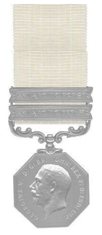 Polar Medal George V issue, two clasps, silver